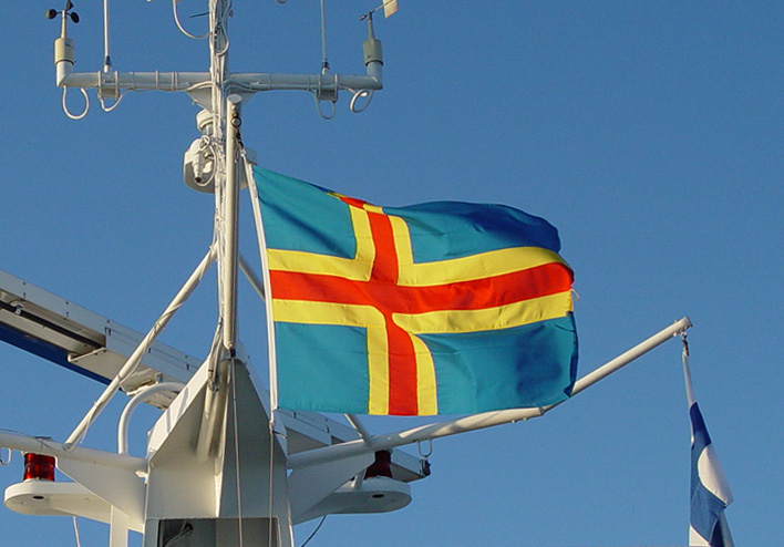 The flag of Åland on a ship